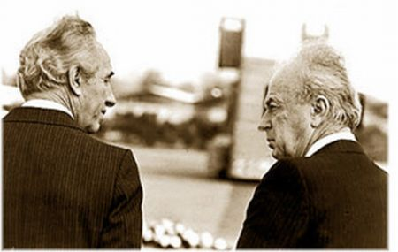 PM Yitzhak Rabin with President Shimon Peres. For more from the IDF